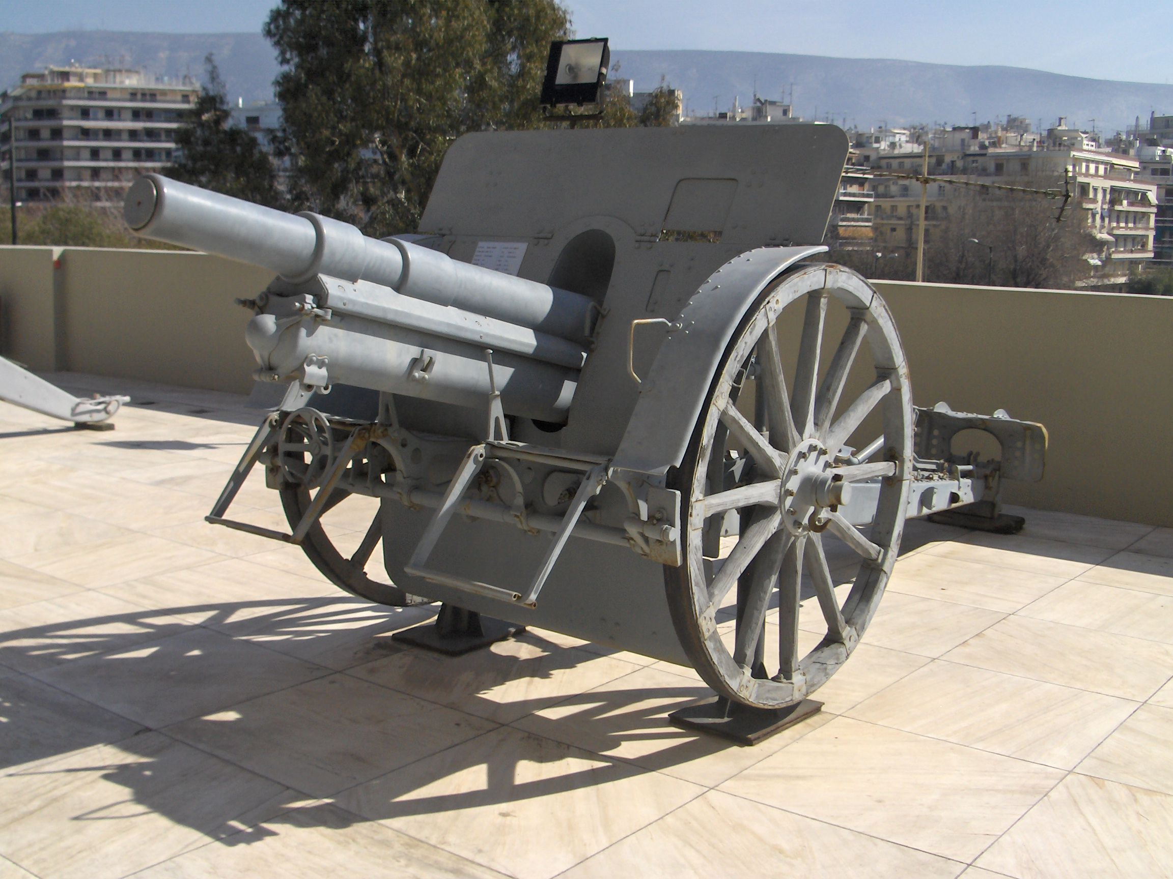 Exhibit at the War Museum in Athens. Škoda field howitzer (Škoda 100 mm houfnice vz 14/19)